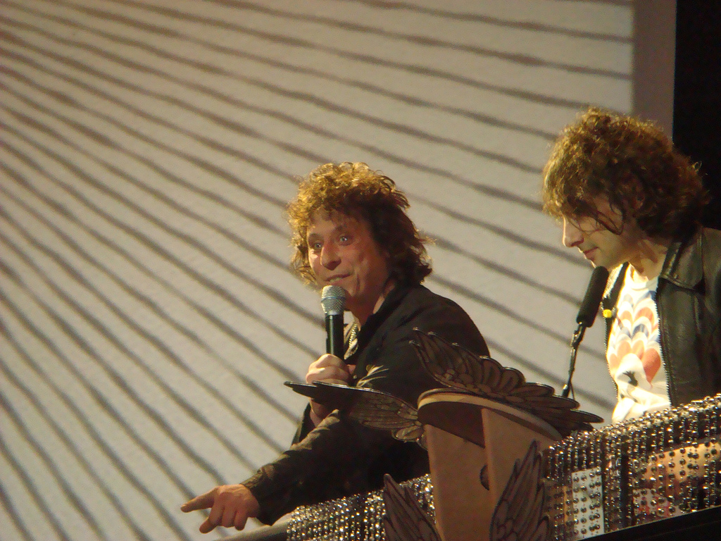 Welsh drummer Stuart Cable with Alex Zane